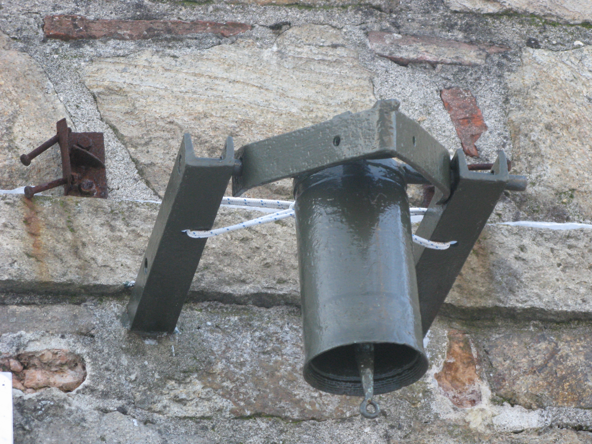 Monte della Madonna, Venetien/Italian, First World War projectile, used as churchbell